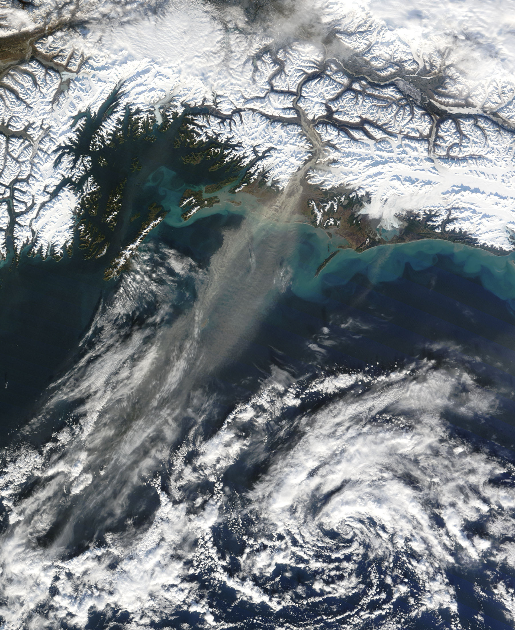 In this image, the wind is blowing from the snow-covered mountains to the Gulf of Alaska. The wind picked up fine sediment from the riverbank and carried it over the ocean. The pale brown plume of airborne dust contrasts sharply with the dark ocean beneath it.